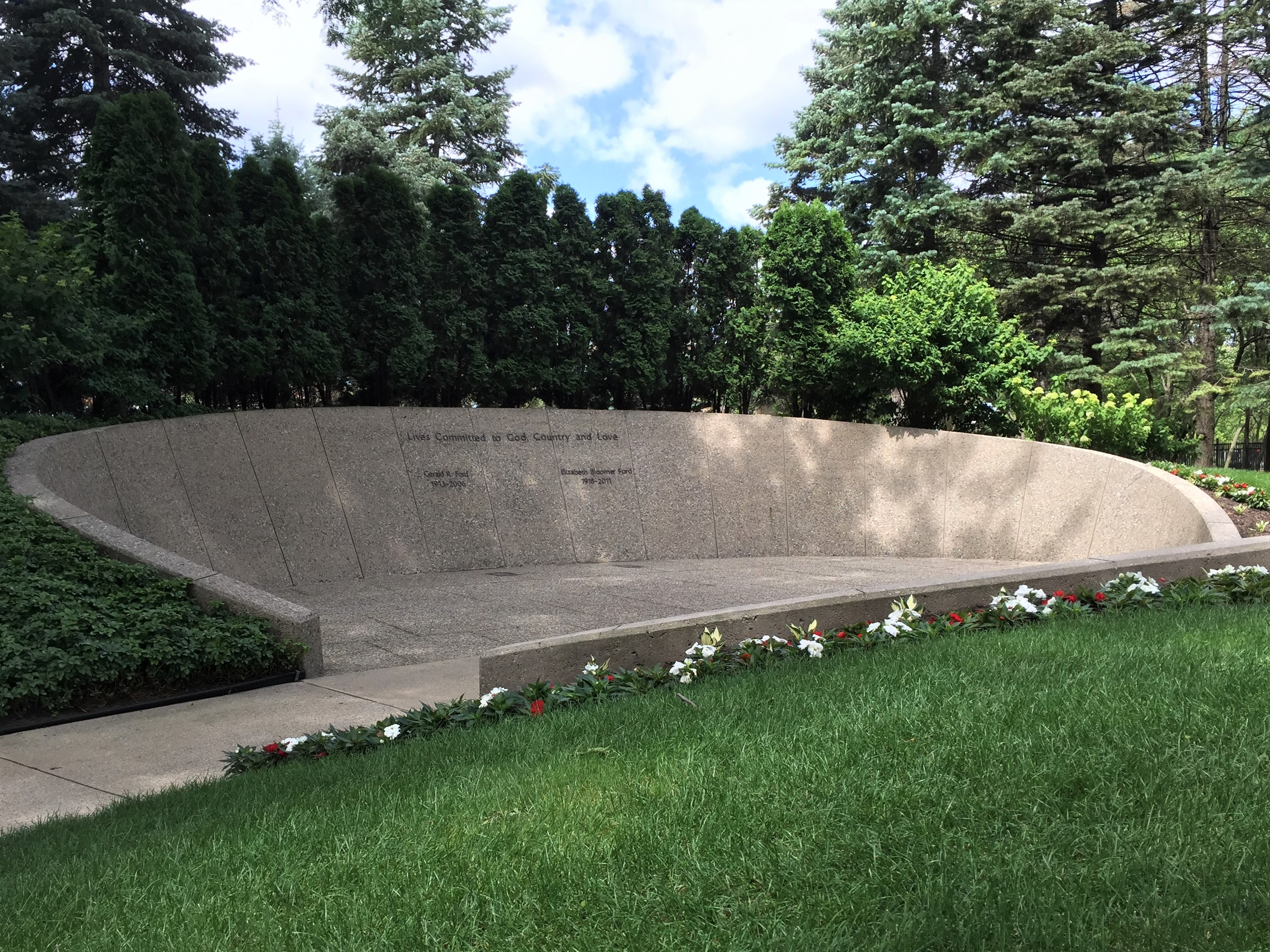 Gravesite of Gerald Ford, 38th President of the United States, and his wife Betty Ford, at the Gerald R. Ford Presidential Museum, Grand Rapids, Michigan.